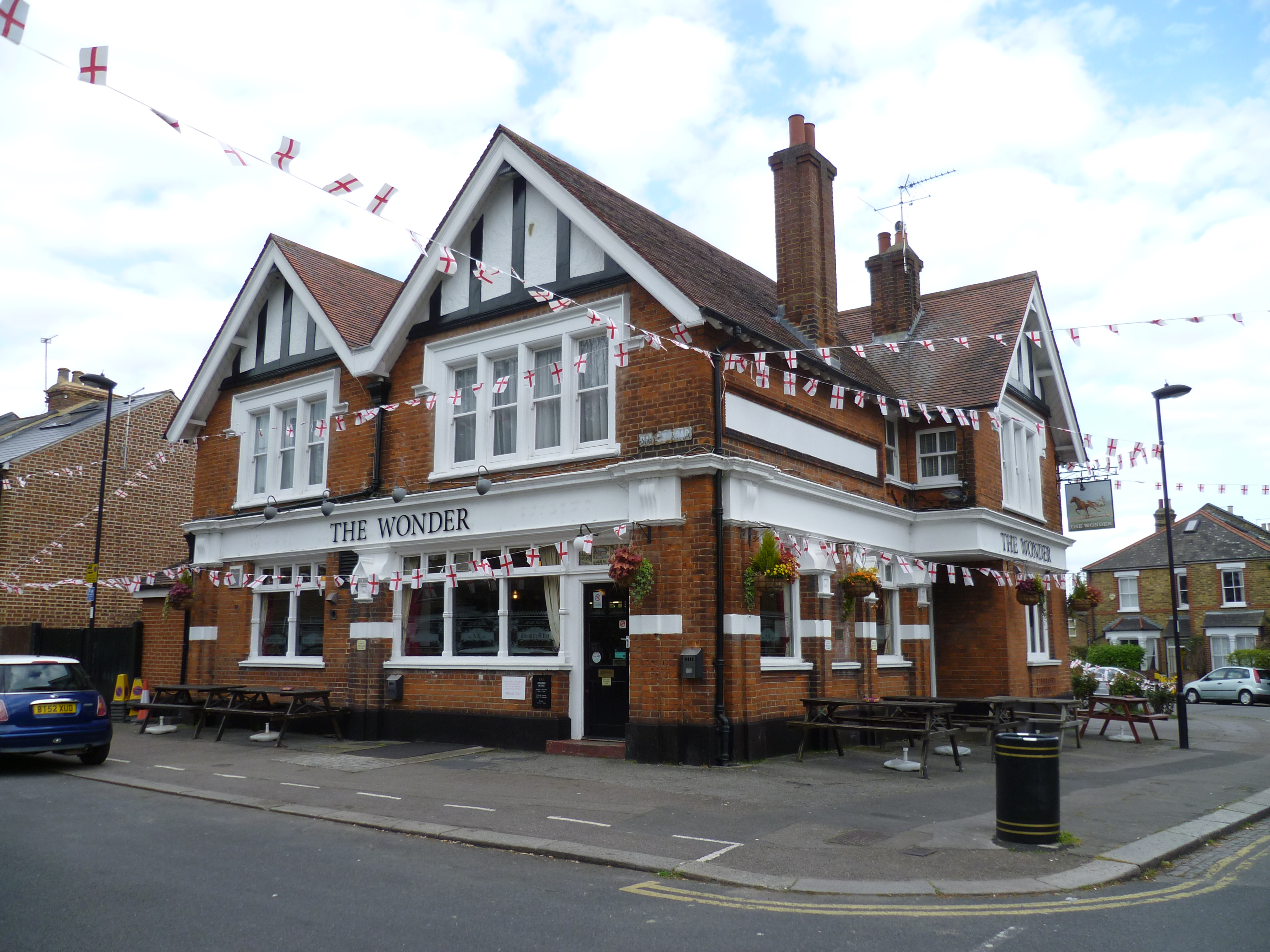 Laurel Bank Road, Enfield